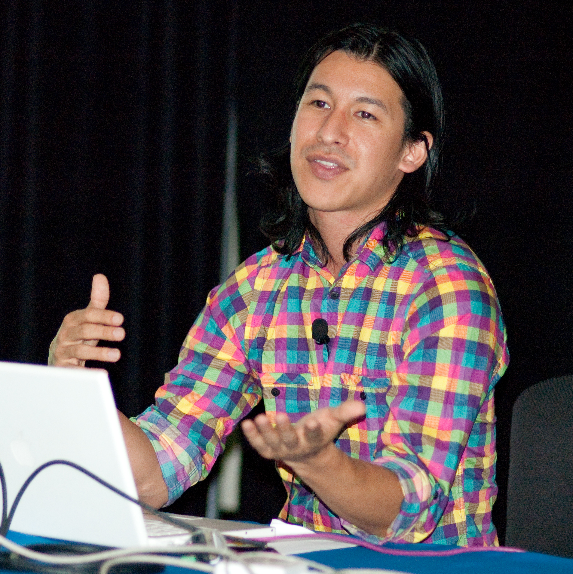 Shots from North by Northeast Interactive in Toronto.